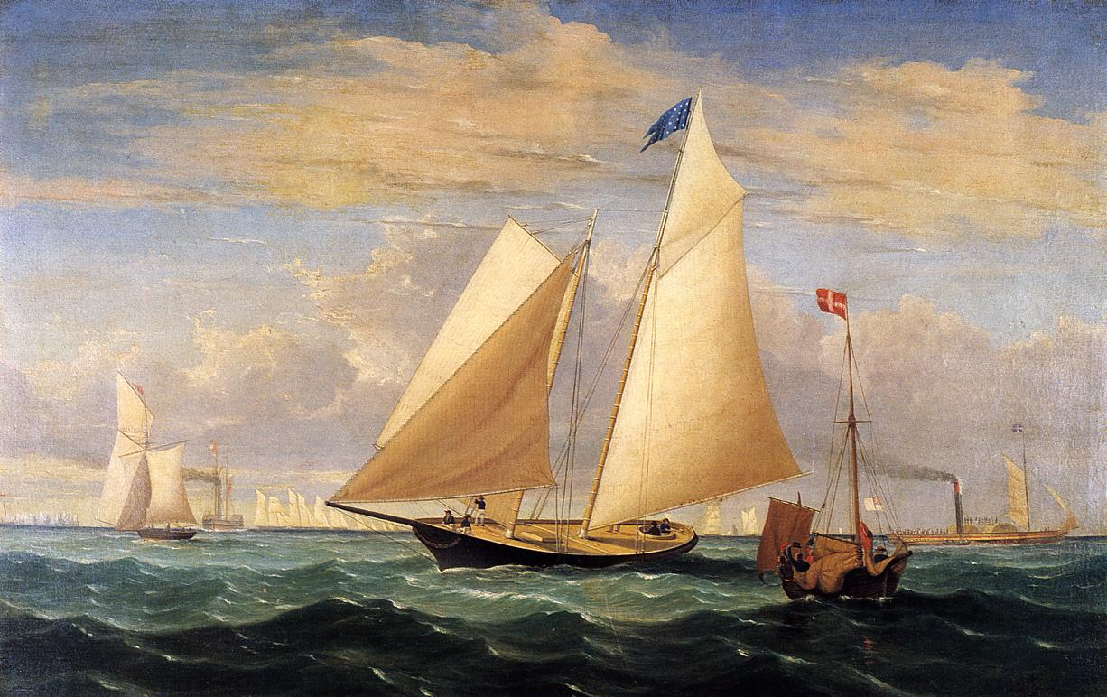 "The Yacht 'America' Winning the International Race," oil on canvas, by the American artist Fitz Hugh Lane. Courtesy of the Peabody Collection.